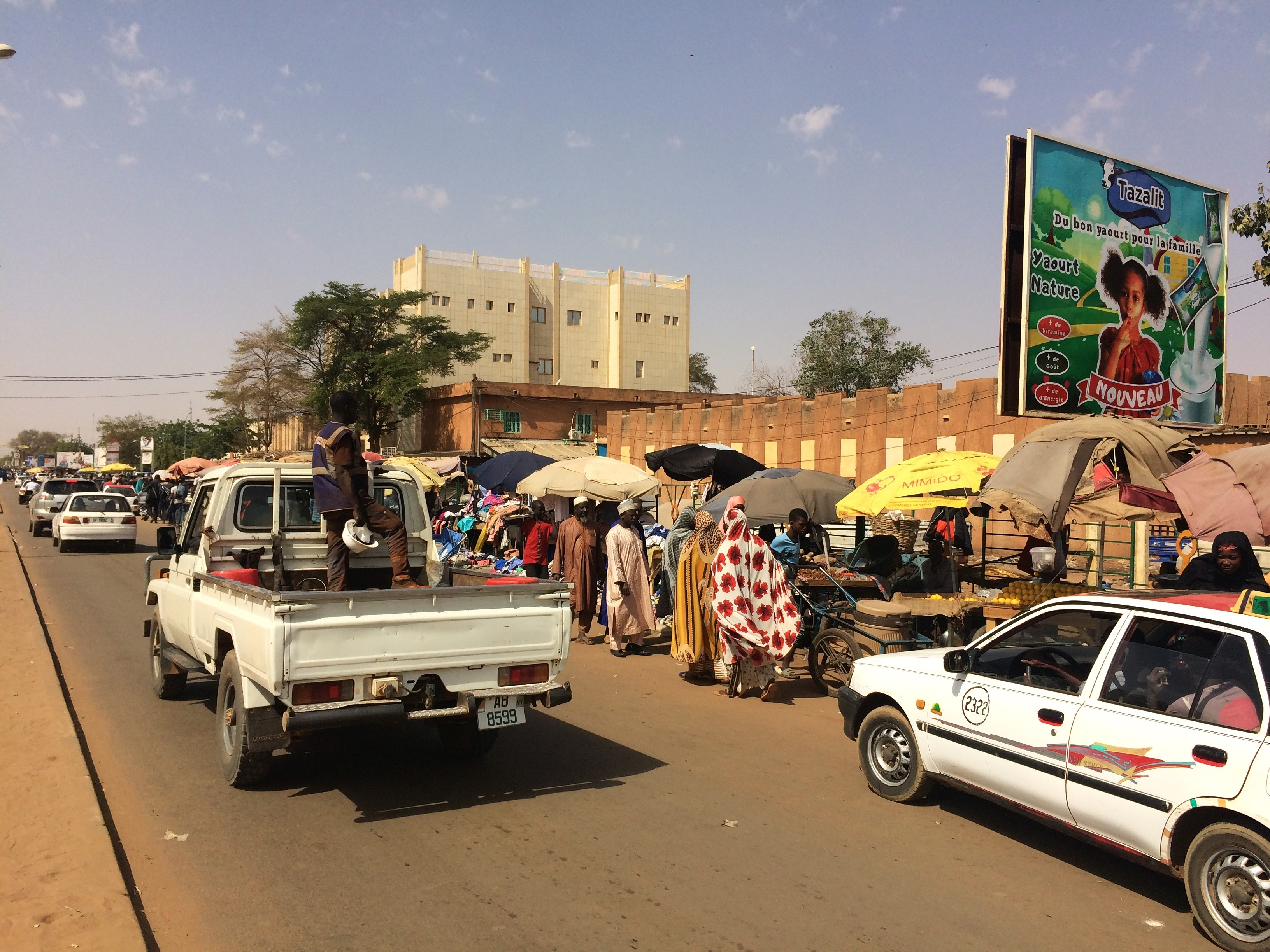 Scene on the Avenue Mali Béro (Rue RF-34) in the eastern part of Niamey, capital of Niger.